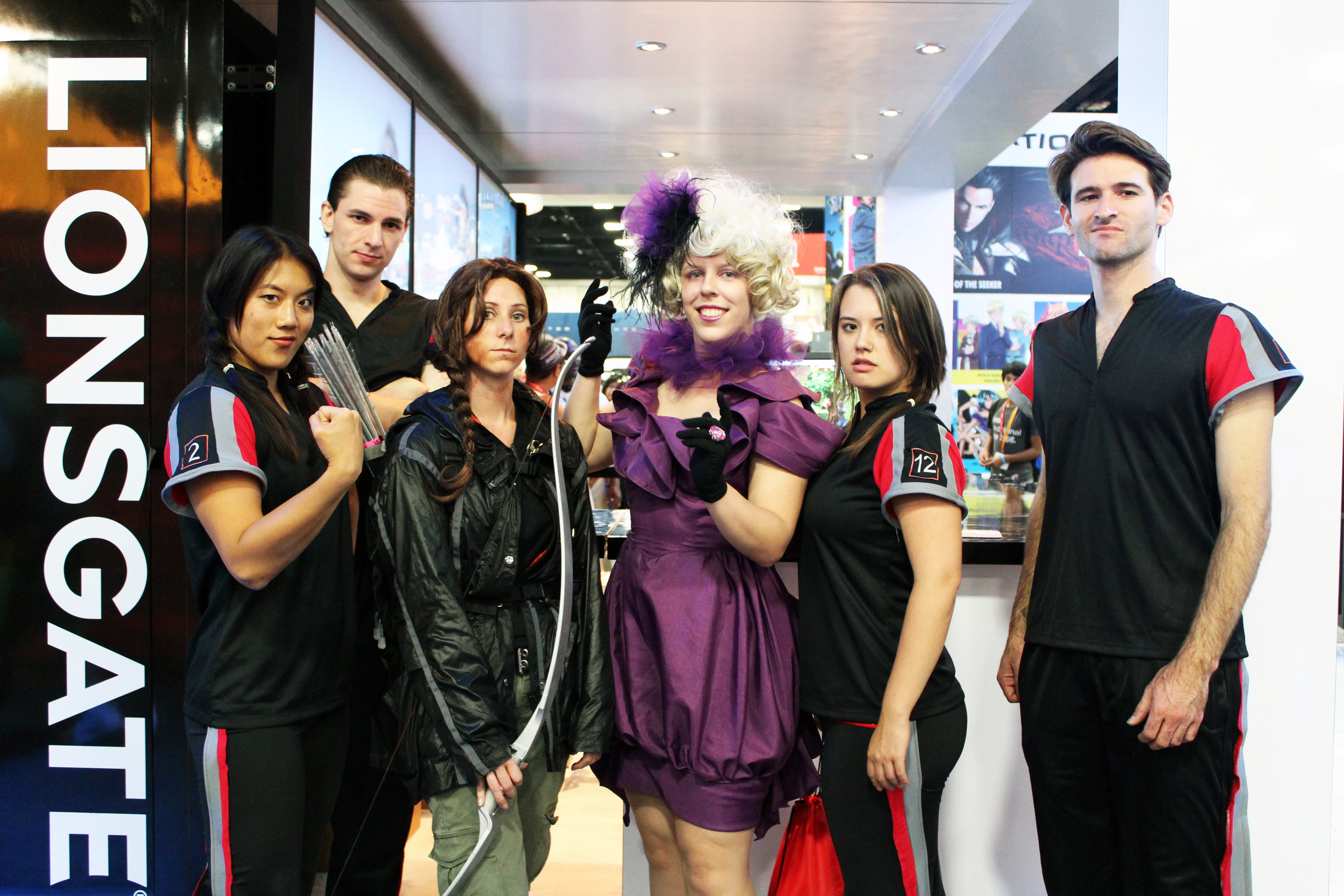 Cosplayers as Katniss Everdeen, Effie Trinket and the tributes from "The Hunger Games" at San Diego Comic-Con 2012.